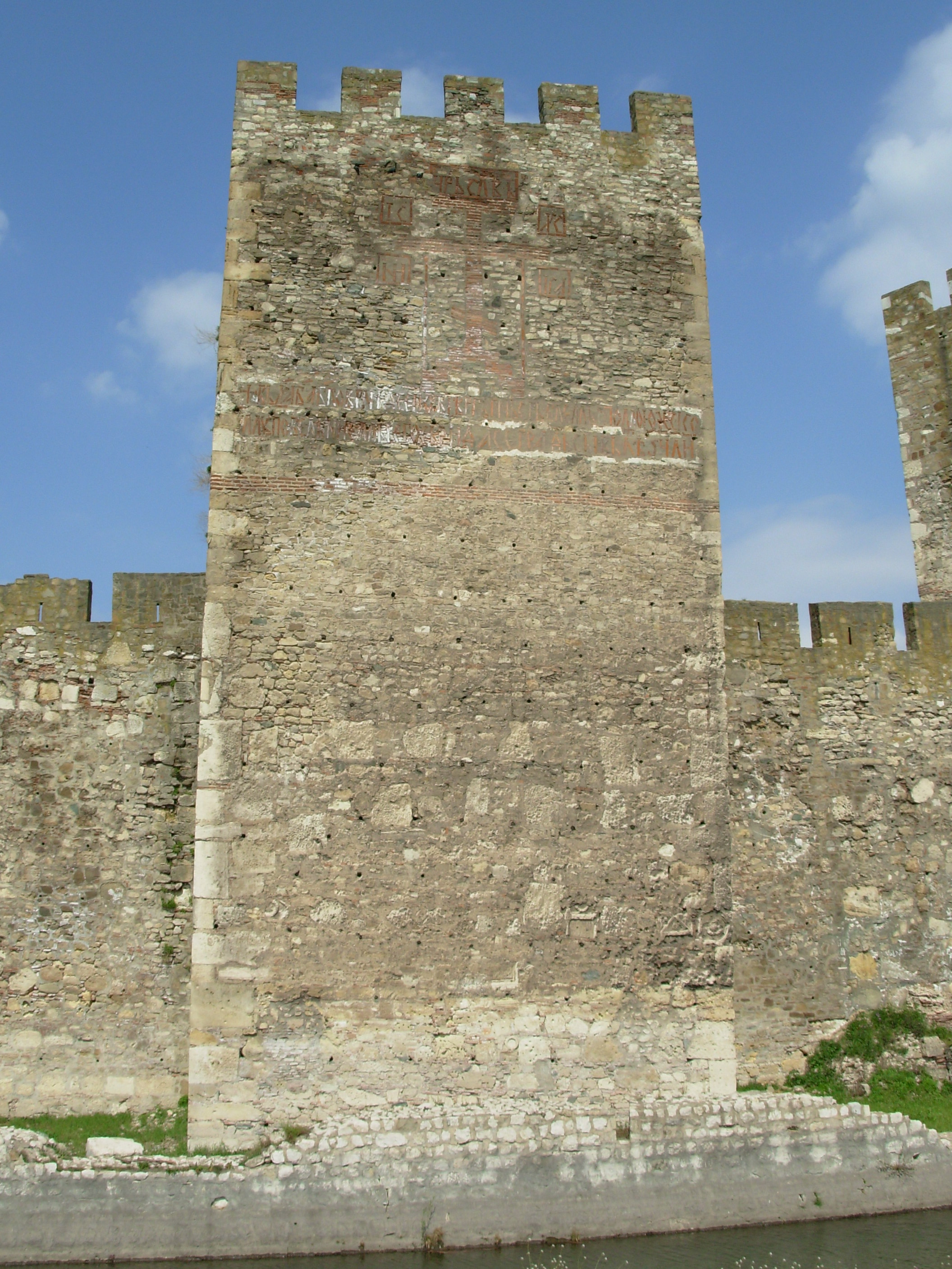 Photo of the "Despot's tower" in Smederevo Fortress. Photo taken from oustside of the small town.